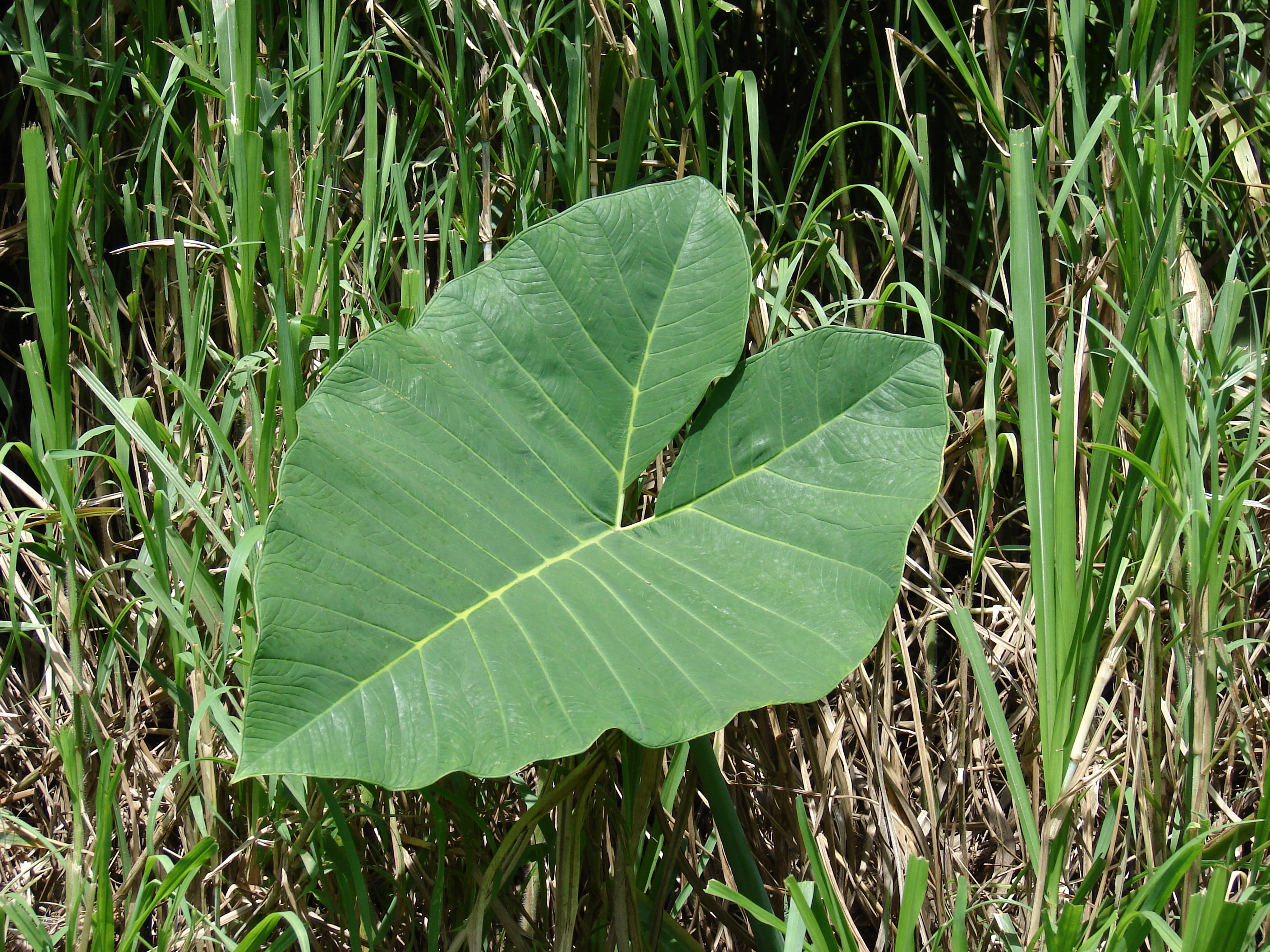 Xanthosoma robustum (leaf). Location: Maui, Huelo